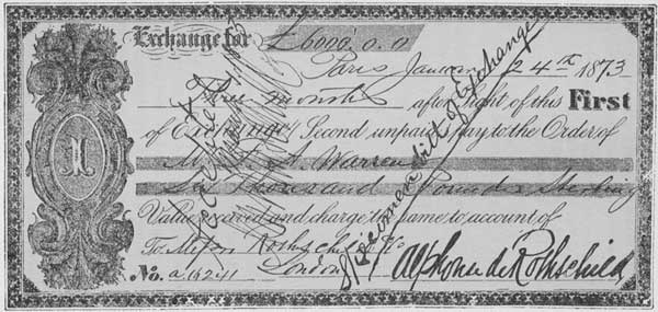 An example of a bill of exchange from 1873 England. First published in "Bidwell's Travels, from Wall Street to London Prison Fifteen Years in Solitude", copyrighted 1897 by Bidwell Publishing Company, Hartford, Conn.